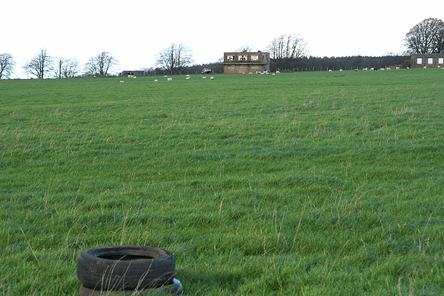 Churchstanton: Culmhead control tower Built over sixty years ago for the wartime air base here, the tower now stands amidst farmland. Looking north-north-west